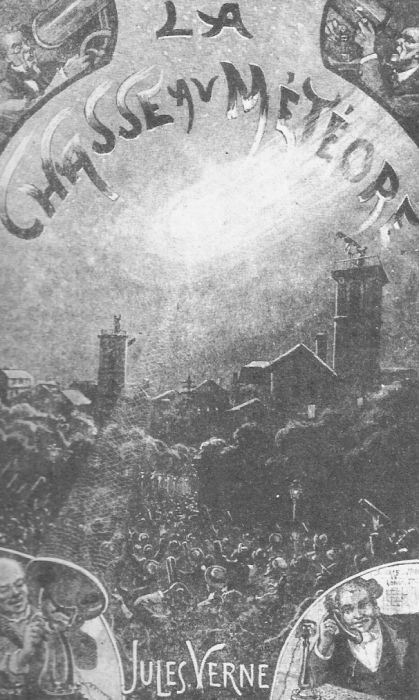 An illustration from Jules Verne's novel "The Chase of the Golden Meteor" (also published as "The Hunt for the Meteor", 1901) drawn by George Roux.